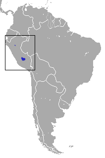 Quechuan Mouse Opossum (Marmosa quichua) range